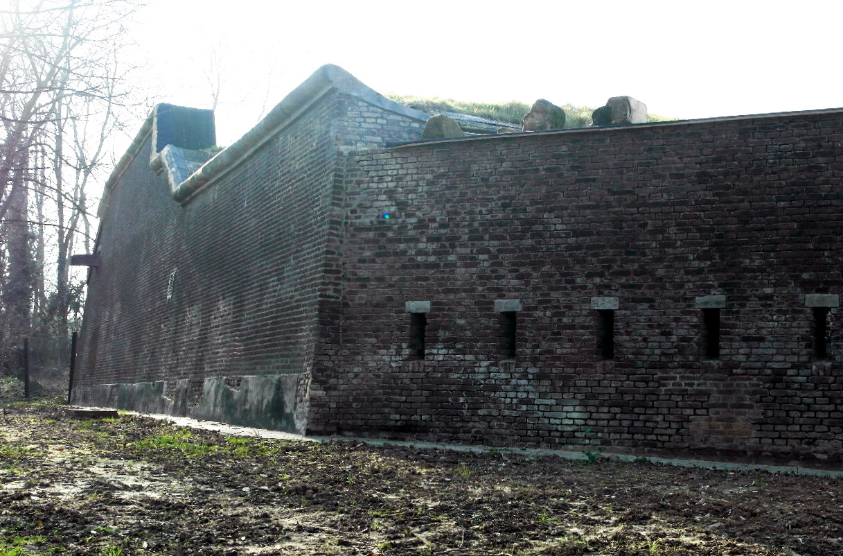 Maastricht, the Netherlands. View of the early 19th-century fortress Fort Koning Willem I, part of the defense works surrounding the city of Maastricht up till 1867.